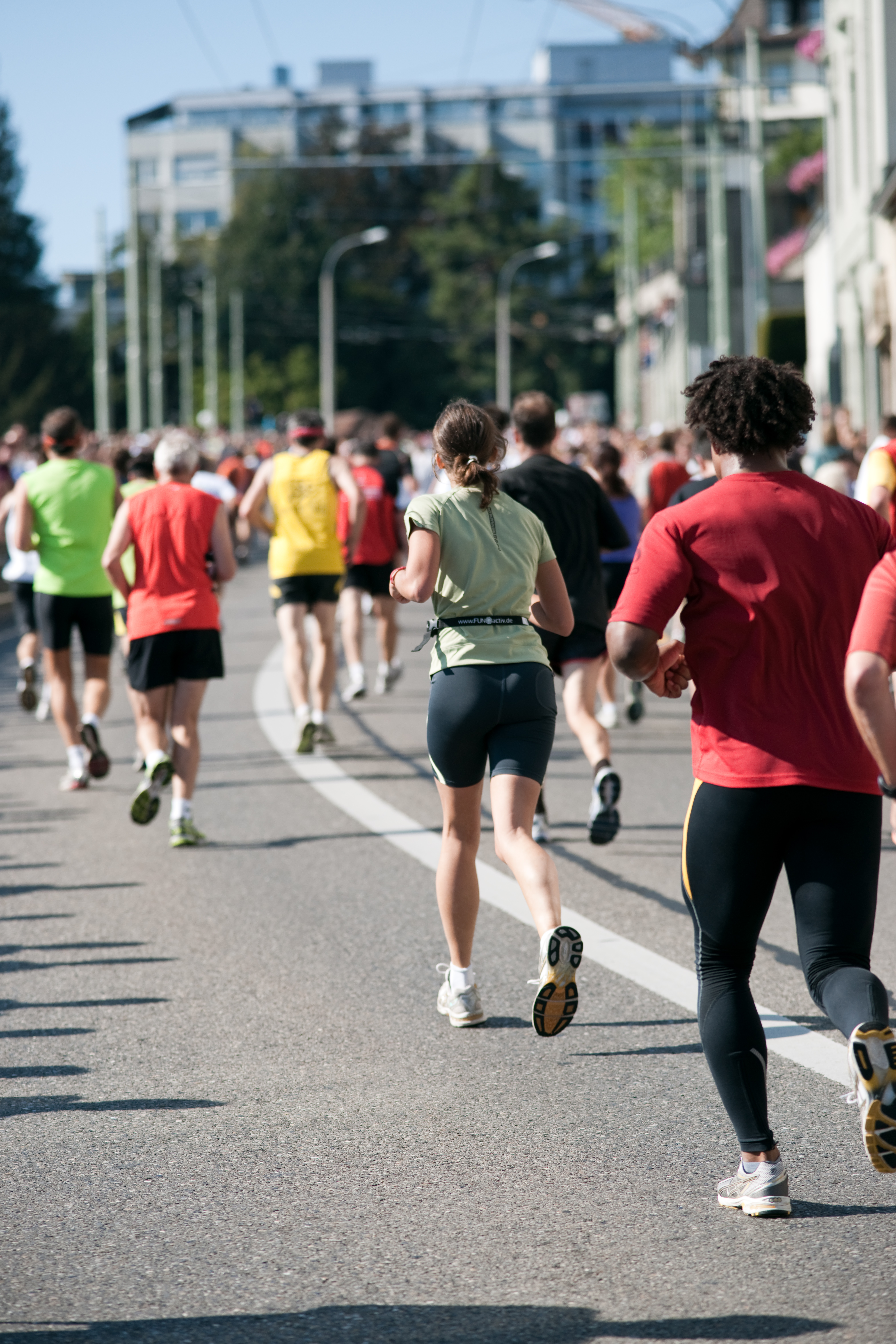 2009 Morat-Fribourg Run